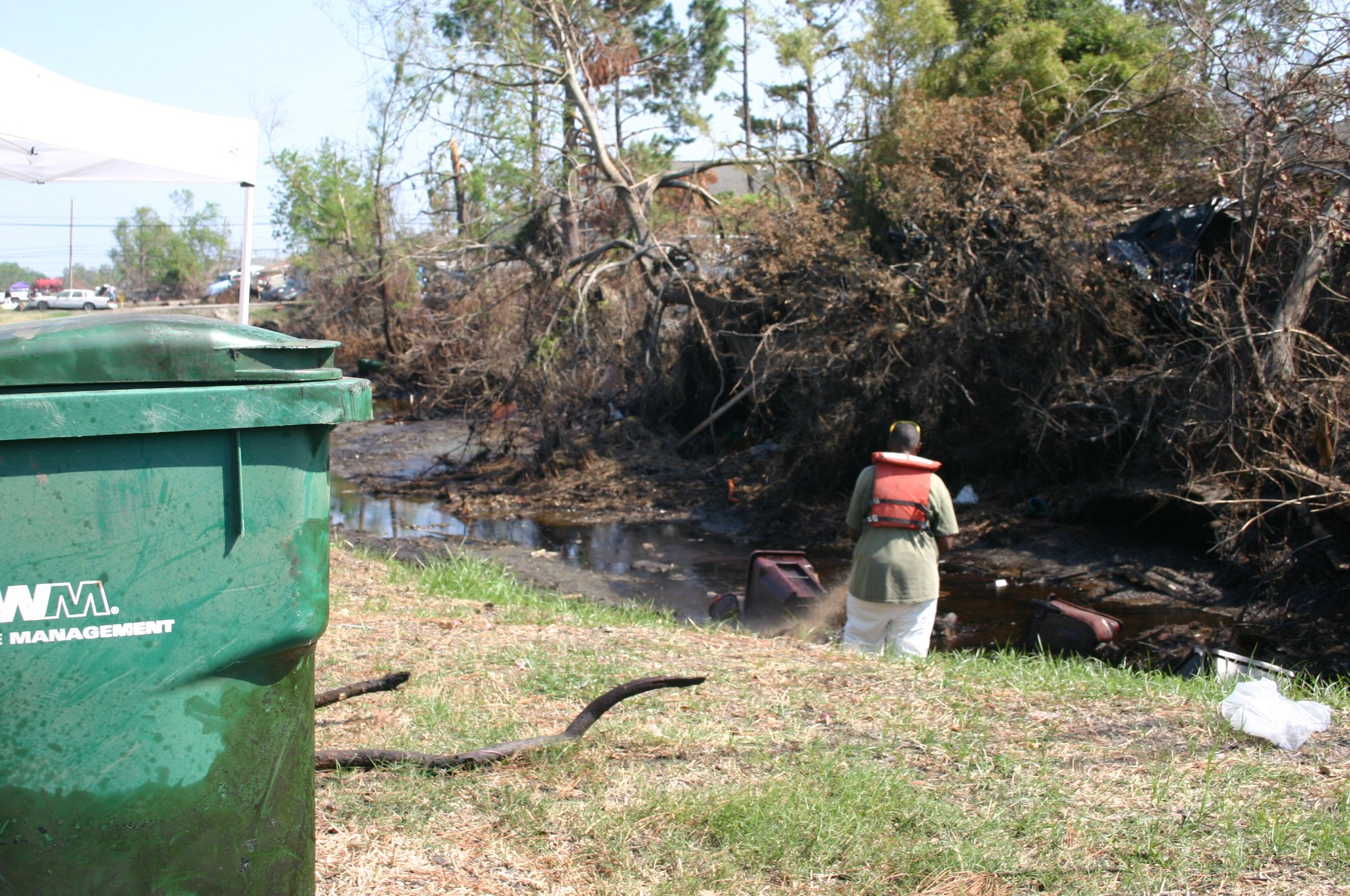 A Murphy Oil contractor hosting down the side of a canal on Campagna Drive in Chalmette, Louisiana. You can see the oil residue on the green Waste Management garbage can in the foreground. The trees along the banks of the canal have turned brown at the oil line. This was taken about a month after Hurricane Katrina. Area was flooded in the levee failure disaster during Hurricane Katrina in 2005.